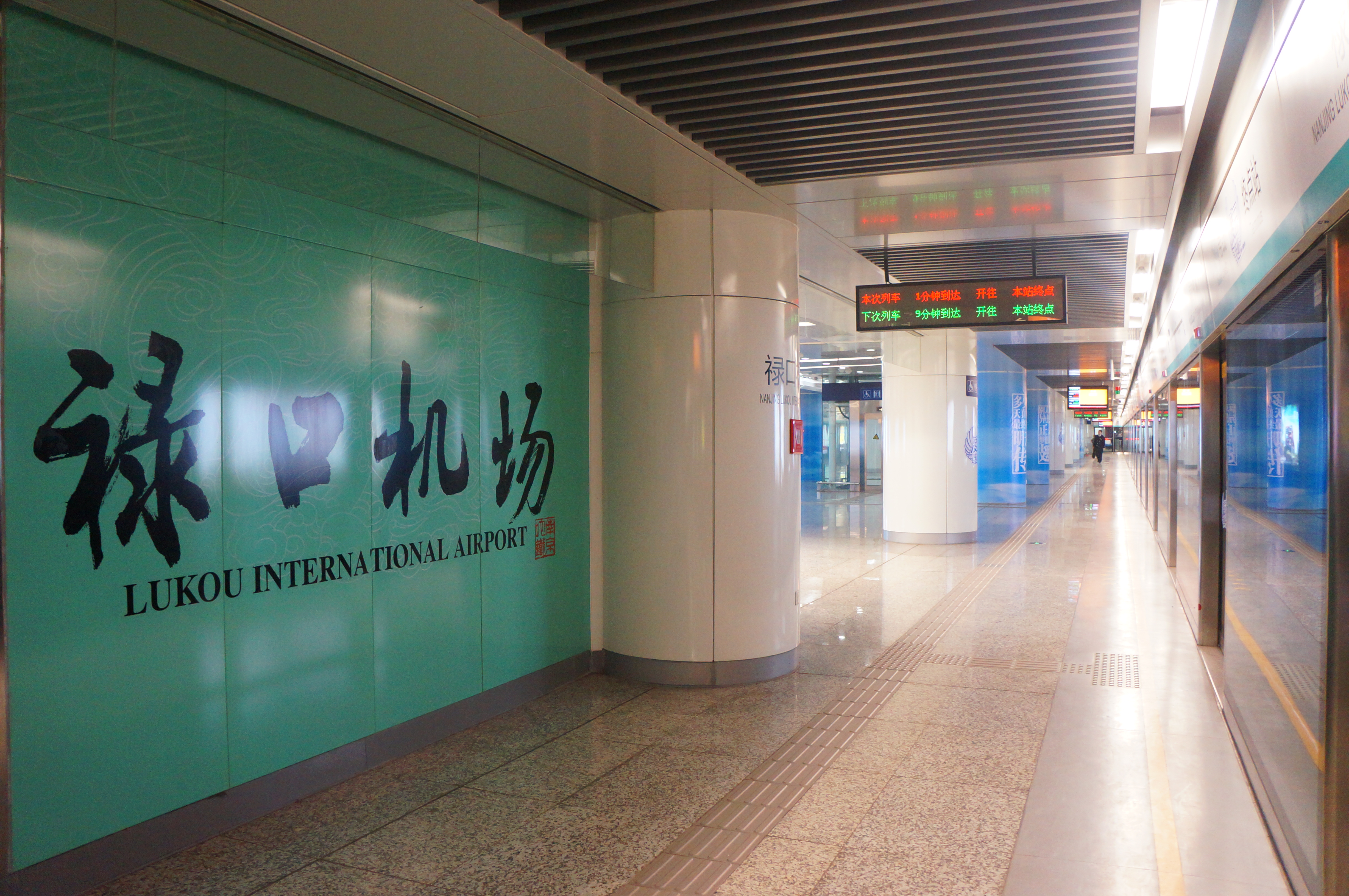 201712 Nameboard of Lukou International Airport Station